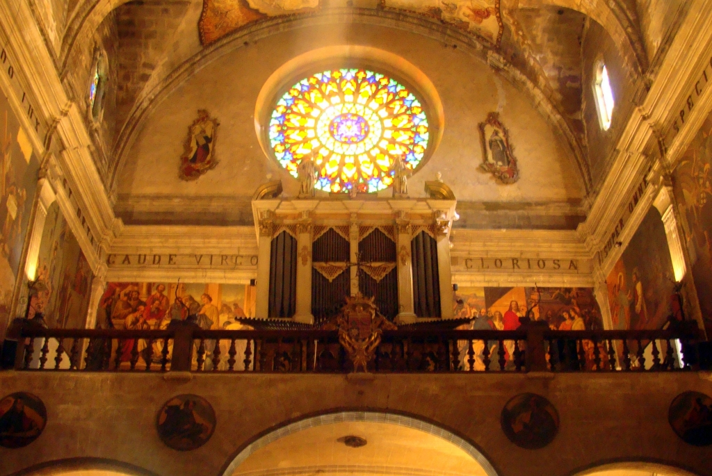 Church of Our Lady of the Angels in Pollença